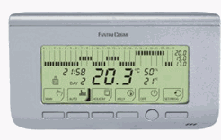 Electronic thermostat